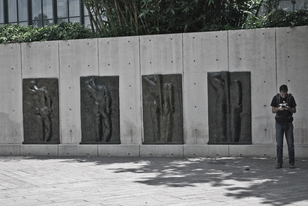 A mural from the Cullen sculpture garden in Houston, TX